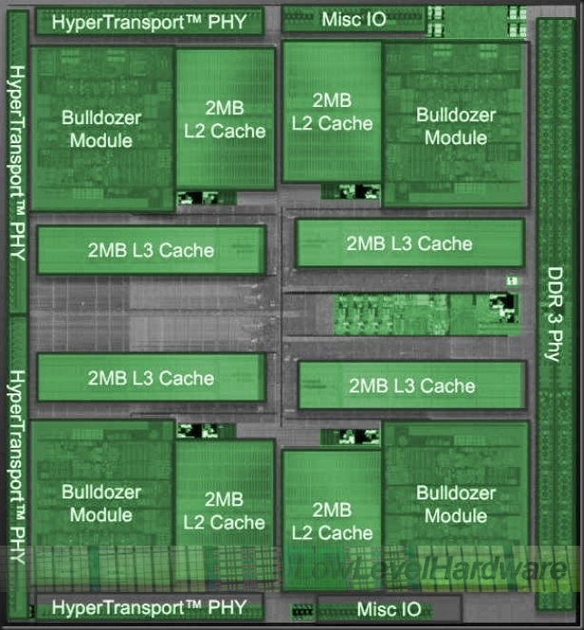 Foto del die de AMD Bulldozer 32 nm.